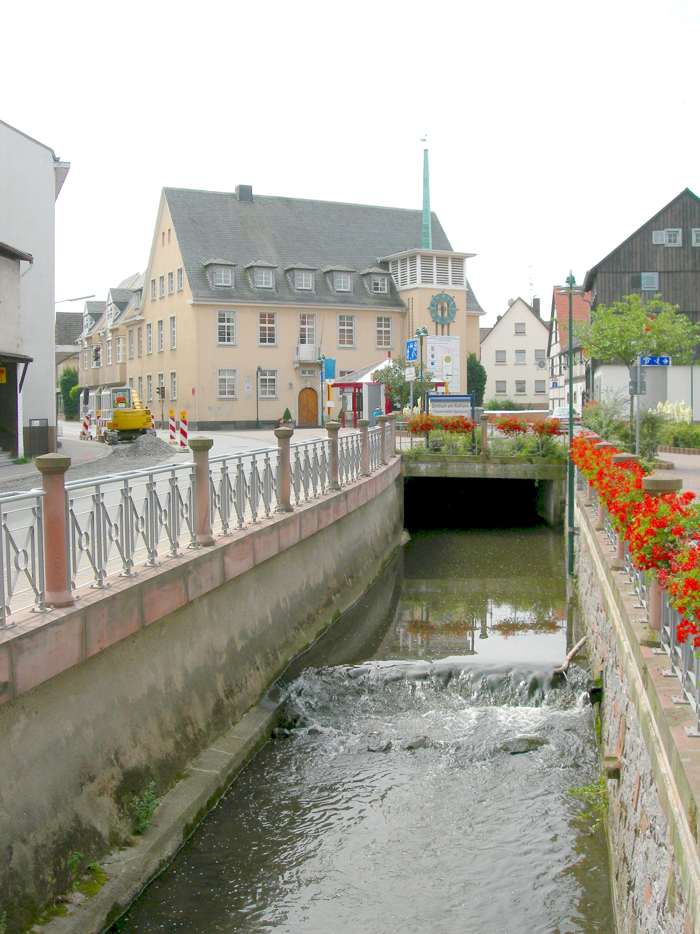 Ober-Ramstadt (Hesse), town hall